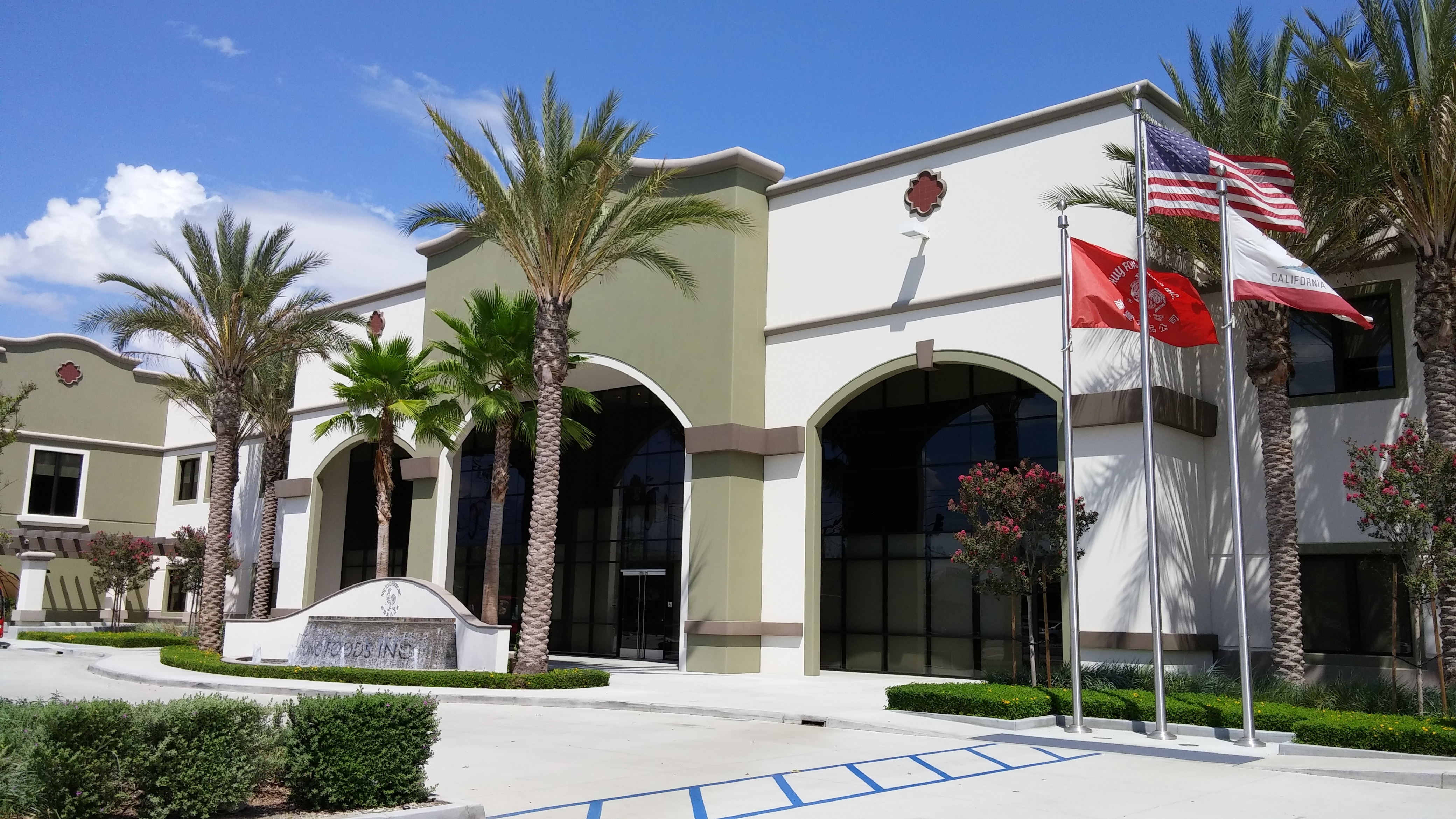 This is the Irwindale California headquarters of Huy Fong Foods, the well-known maker of Sriracha